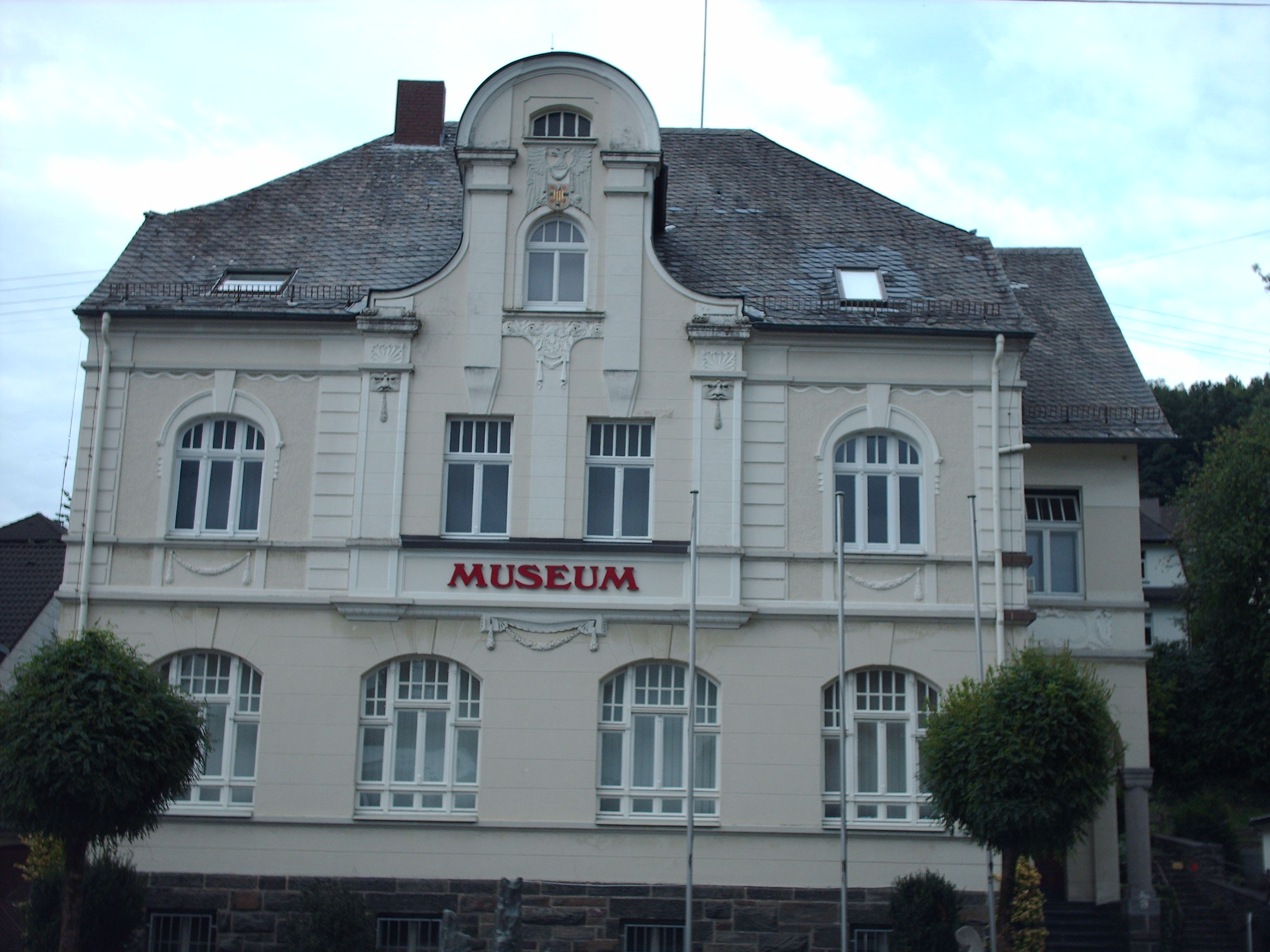 Museum of local history (former Amtshaus), Lennestadt, Germany check usage